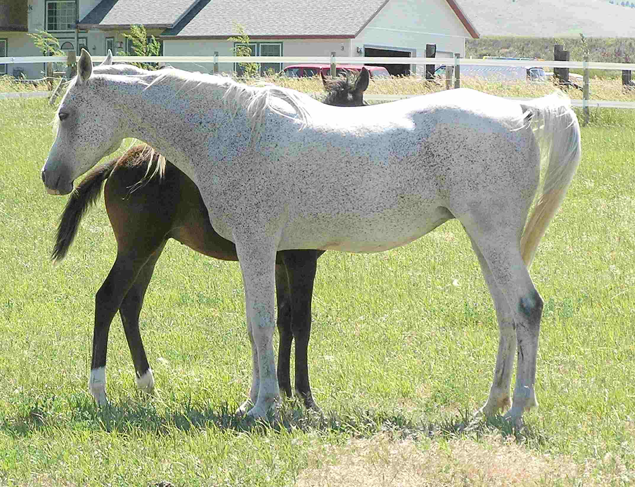 Fleabitten gray purebred Arabian mare with foal